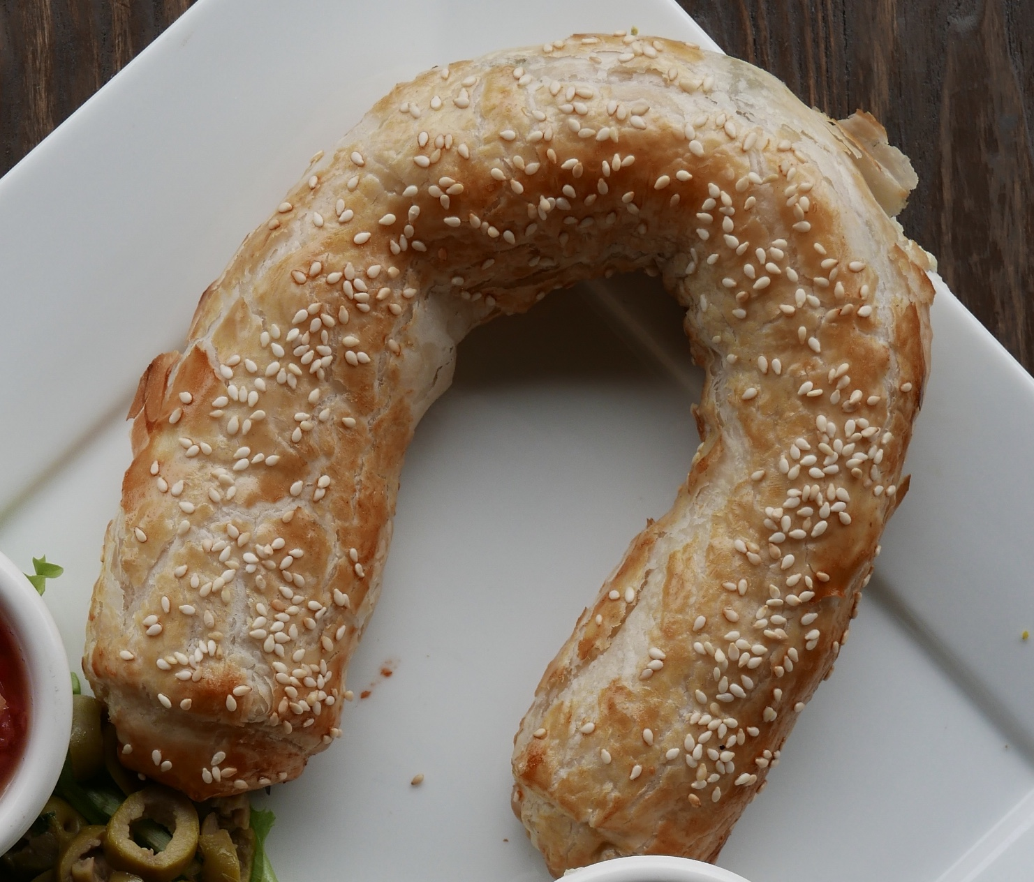 is an Israeli dish made of puff pastry topped with sesame field and stuffed with cheese and olives.